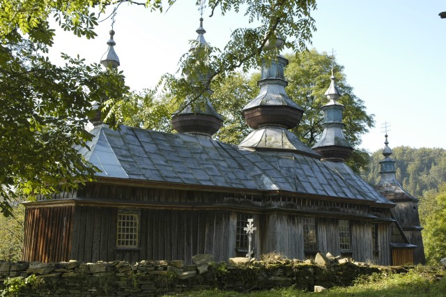 Poland, Komancza - wooden orthodox church (before a fire on September 13, 2006, that burned it down)